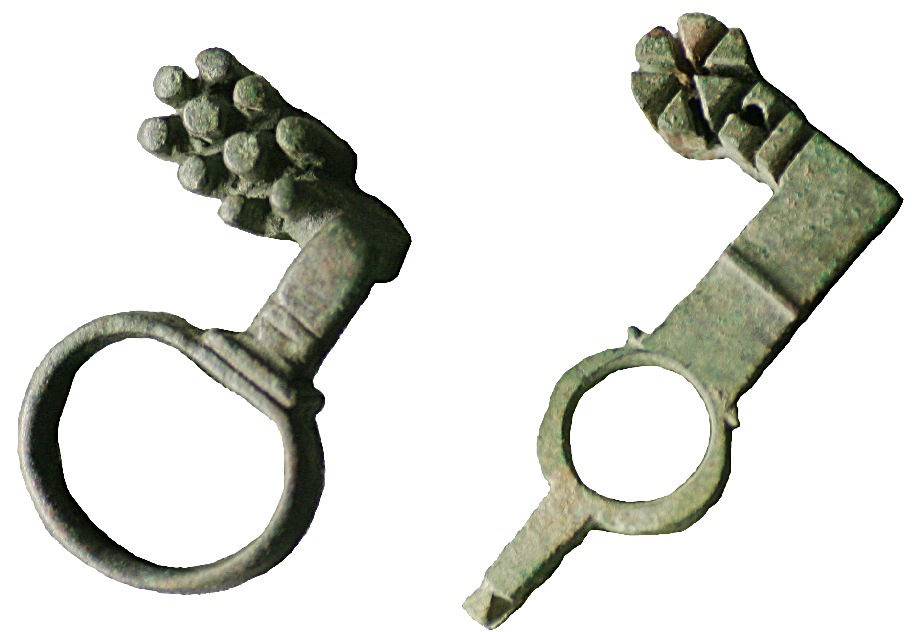 Roman keys from the second century a.C